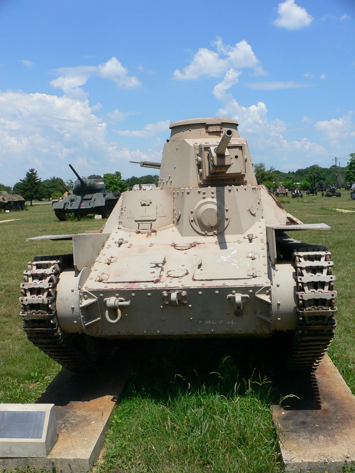 Picture taken by myself, Mark Pellegrini, at the United States Army Ordnance Museum (Aberdeen Proving Ground, MD) on June 12, 2007.